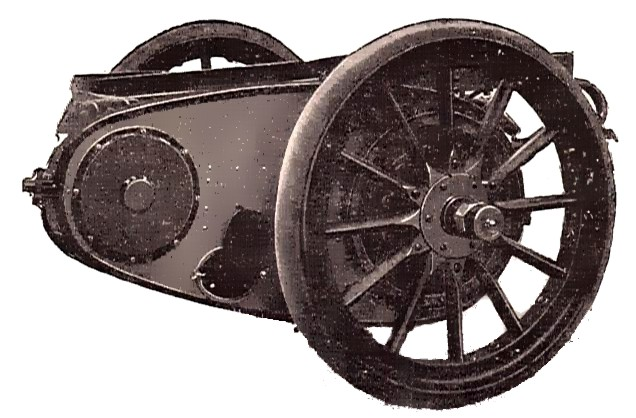 Fig. 63 Chain final-drive for an early car Final-drive and reduction ratio by chain drive. This was an early system used on some cars. It avoided the need to machine a crown wheel and pinion to habndle high torque (difficult in the early days) and it also allowed the differential gear to be mounted on the chassis. Chains may also break, potentially with fatal results at speed. See Babs Scans from 'The Book of the Motor Car', Rankin Kennedy C.E., 1912 See other images from this source in Scans from 'The Book of the Motor Car'